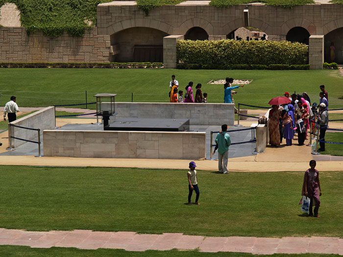 Raj Ghat, Mahatma Gandhi memorial, Delhi/India own photo, may 26, 2005 photo: nomo/michael hoefner